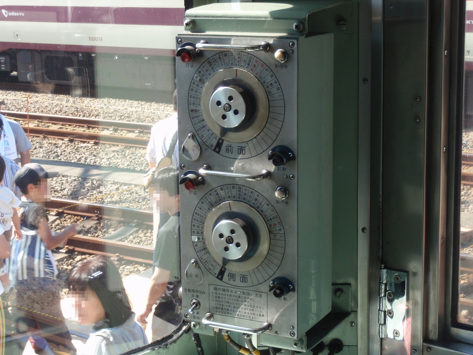 Destination board controller of Odakyu Electric Railway Company, EMU Type 5000.